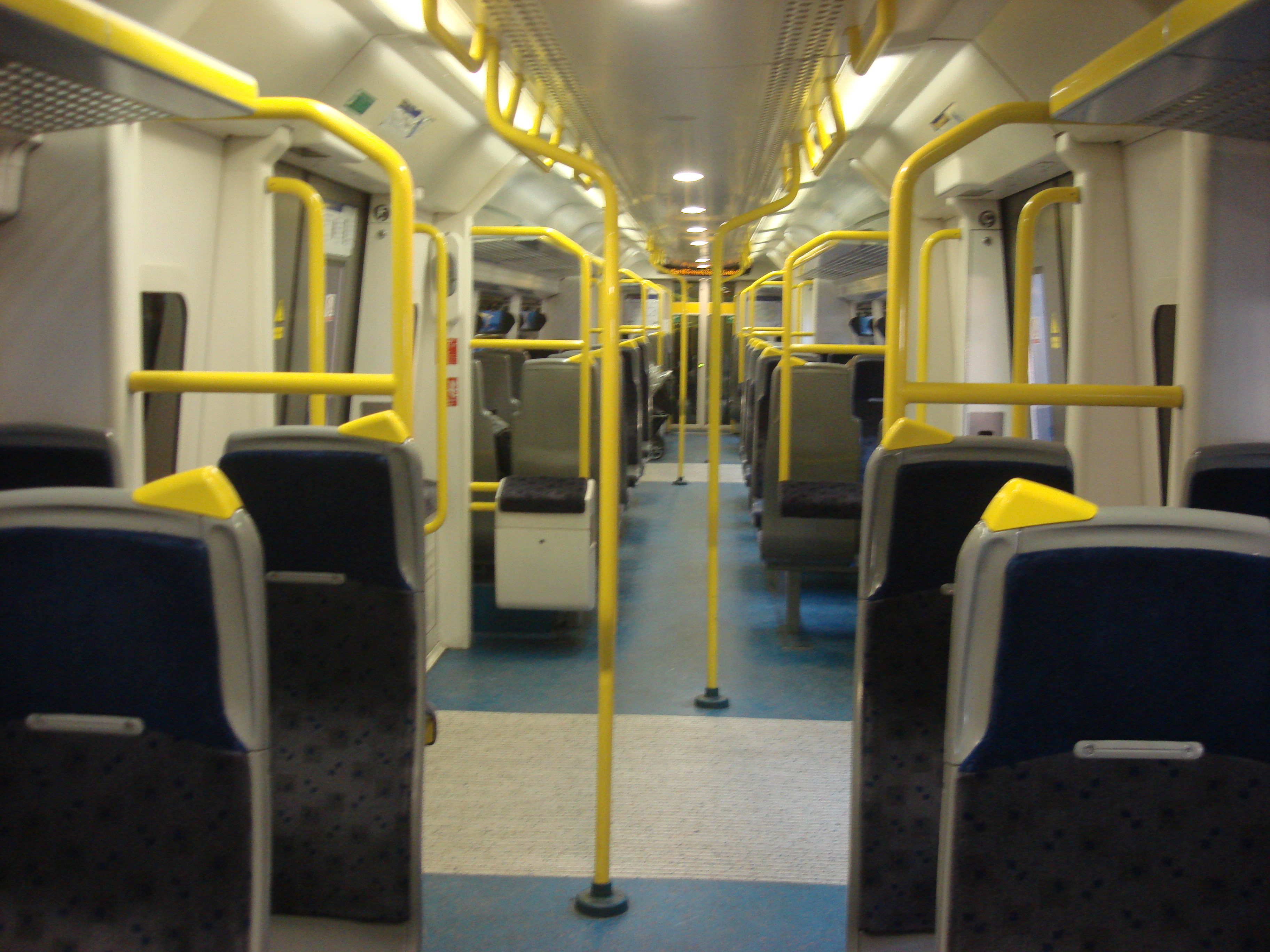 Interior of British Rail Class 376 unit number 376020